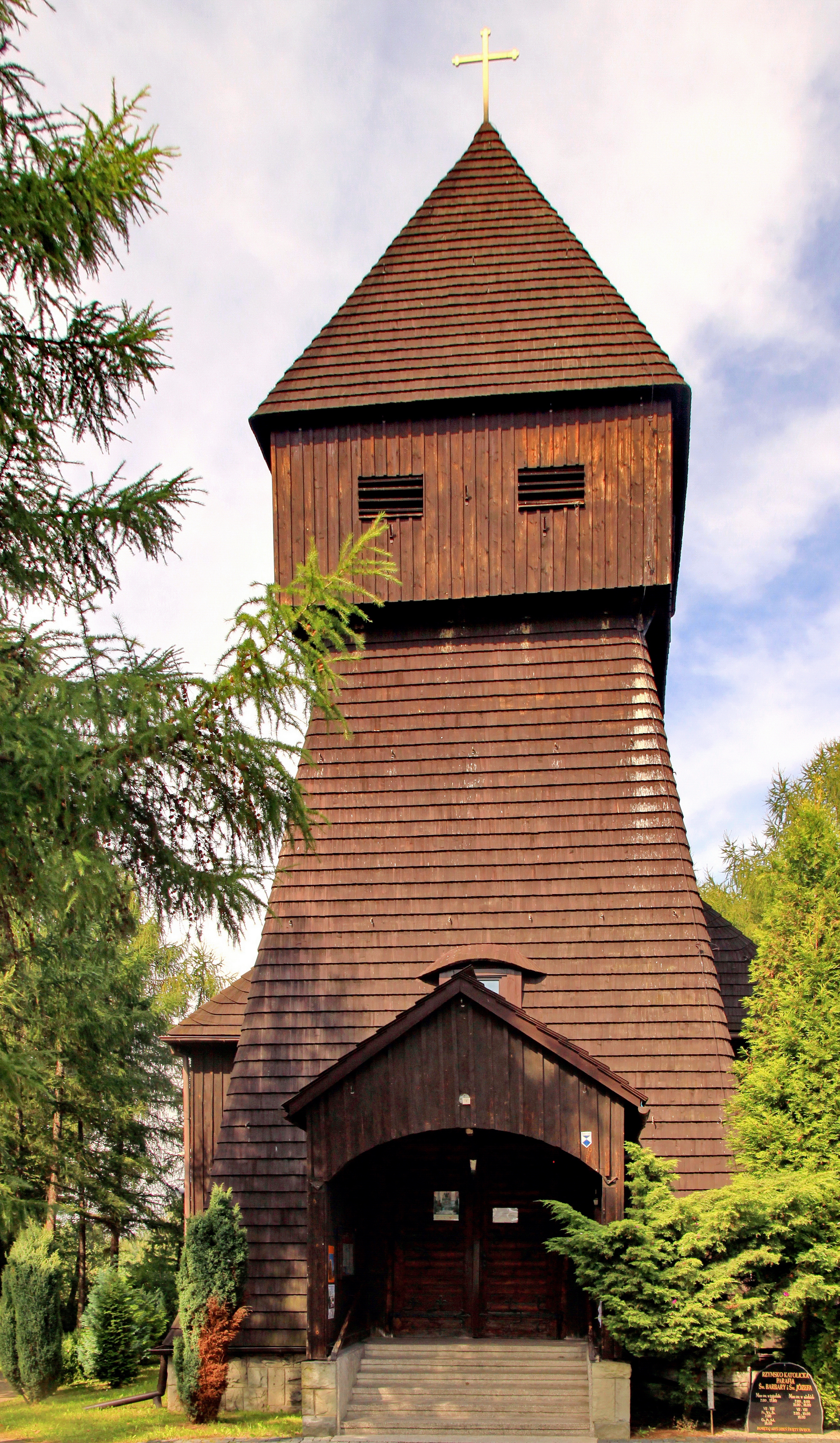 Saint Barbara and Saint Joseph church. Jastrzębie-Zdrój, Silesian Voivodeship, Poland.